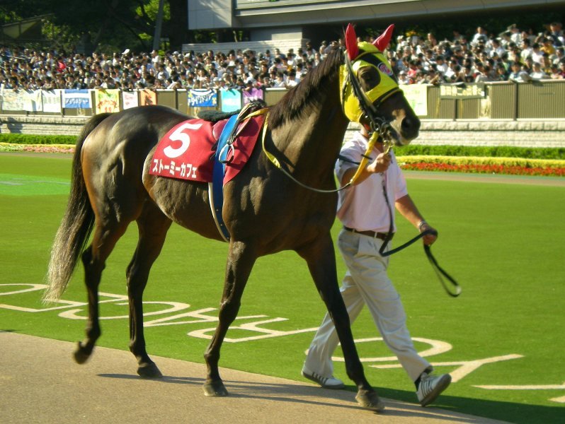 Stormy Cafe